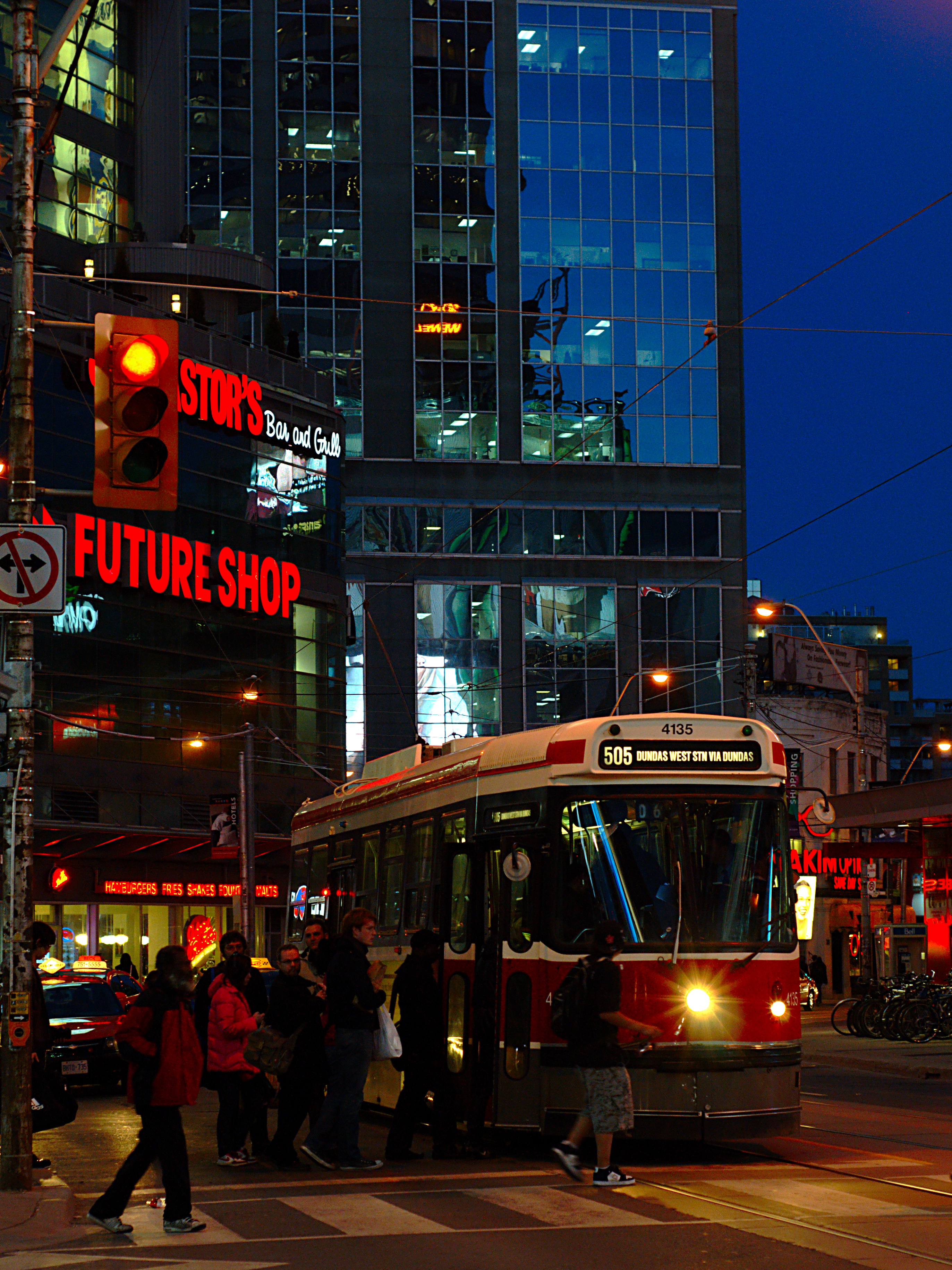 Streetcar on Dundas Street, east of Yonge Street. Toronto, Canada.